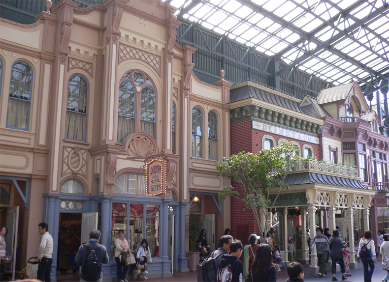 Disney & Co. (Shop of Tokyo Disneyland)